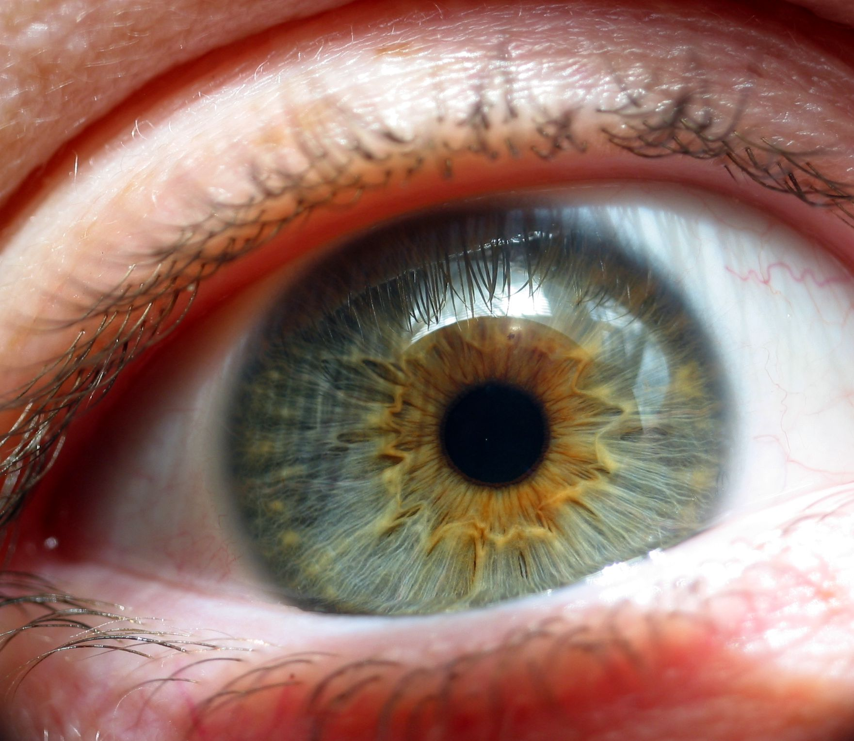 The photographer used a camera and a reversed lens, to get the magnification. Lit solely by sunlight, and correctly objectively balanced to white.